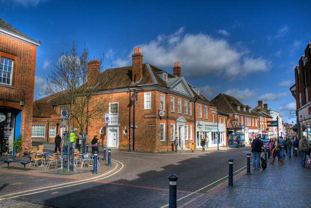 Alton High Street View down the High Street from outside what was until recently Woolworths.